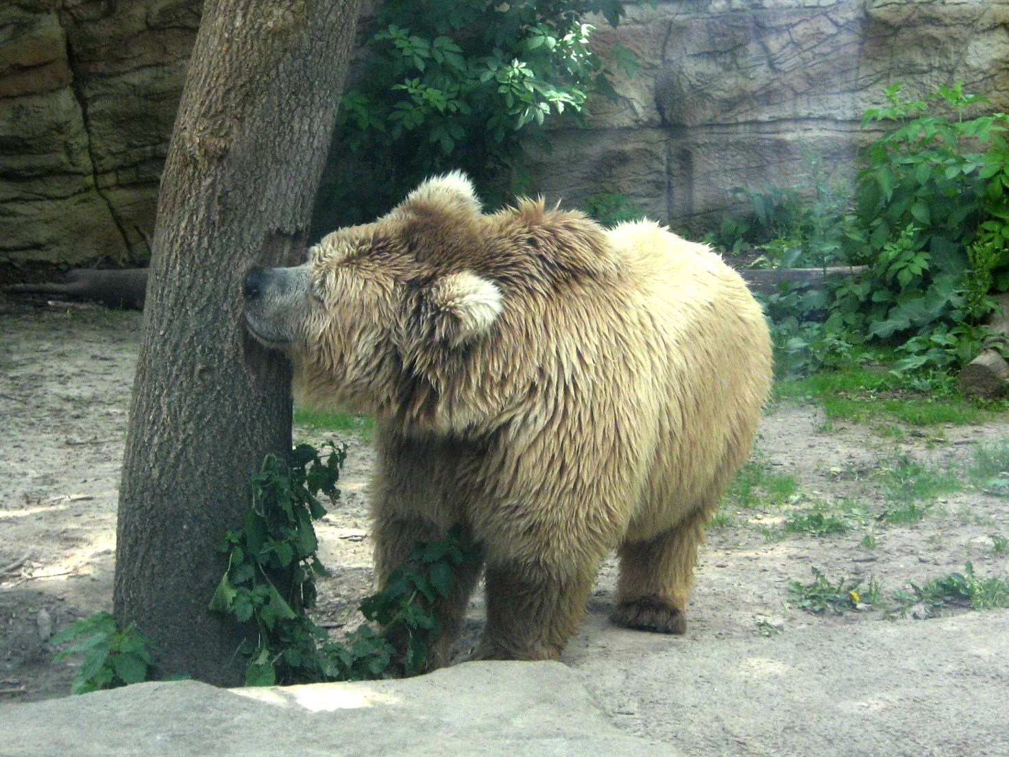 Himalayan Brown Bear (Ursus arctos isabellinus) in Kiev Zoo, Ukraina. In the Kievan zoo he perfectly feels in a glass enclosure.